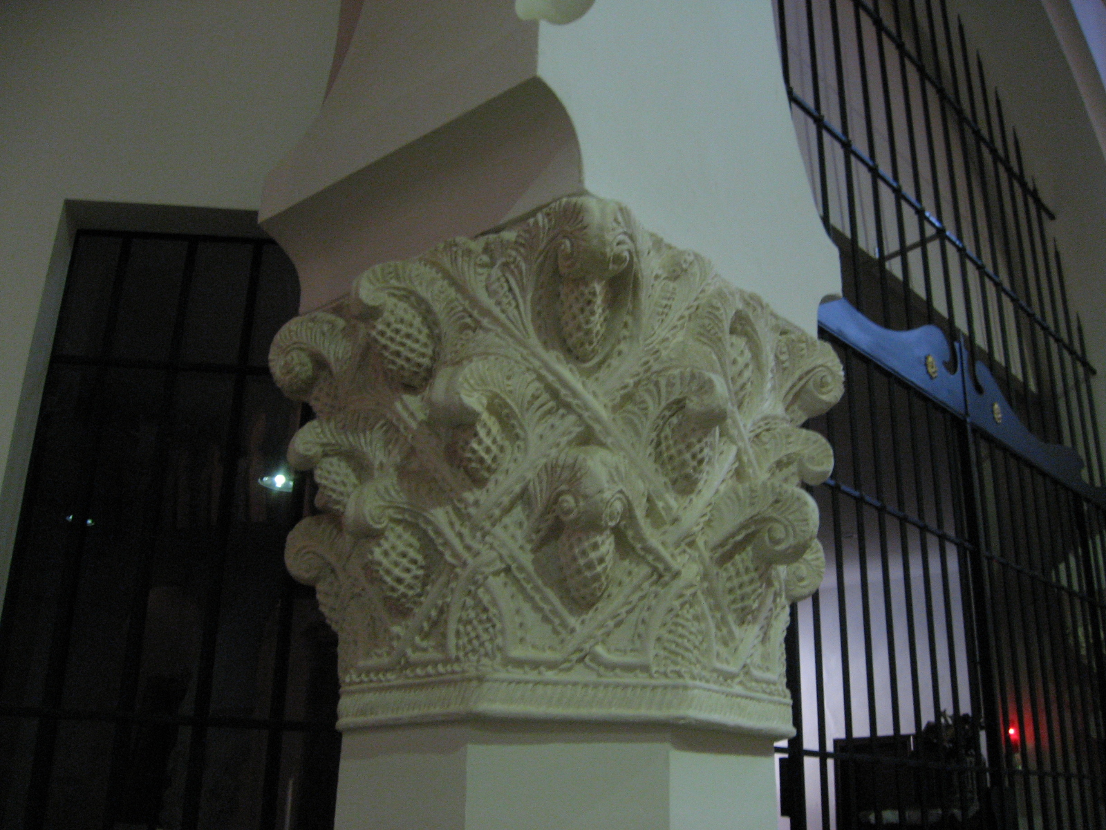 Interior of the old main synagoge of Segovia, Spain.